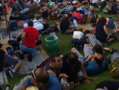 Israeli civilians lying on the ground in order to defend themselves against a rockets attack. For more updates: The Israel Defense Forces Facebook The Israel Defense Forces blog Follow us on Twitter